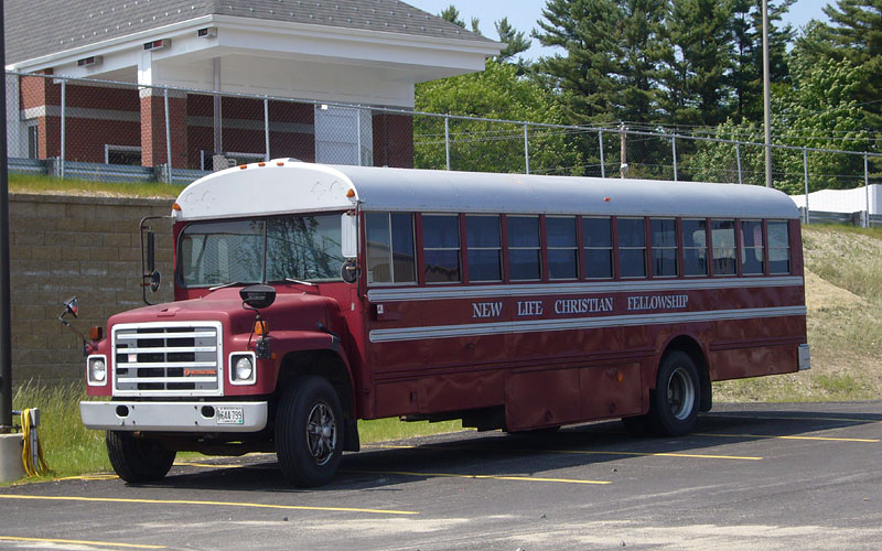 A Carpenter conventional-style school bus, converted to a church bus, owned and operated by New Life Christian Fellowship in Biddeford.